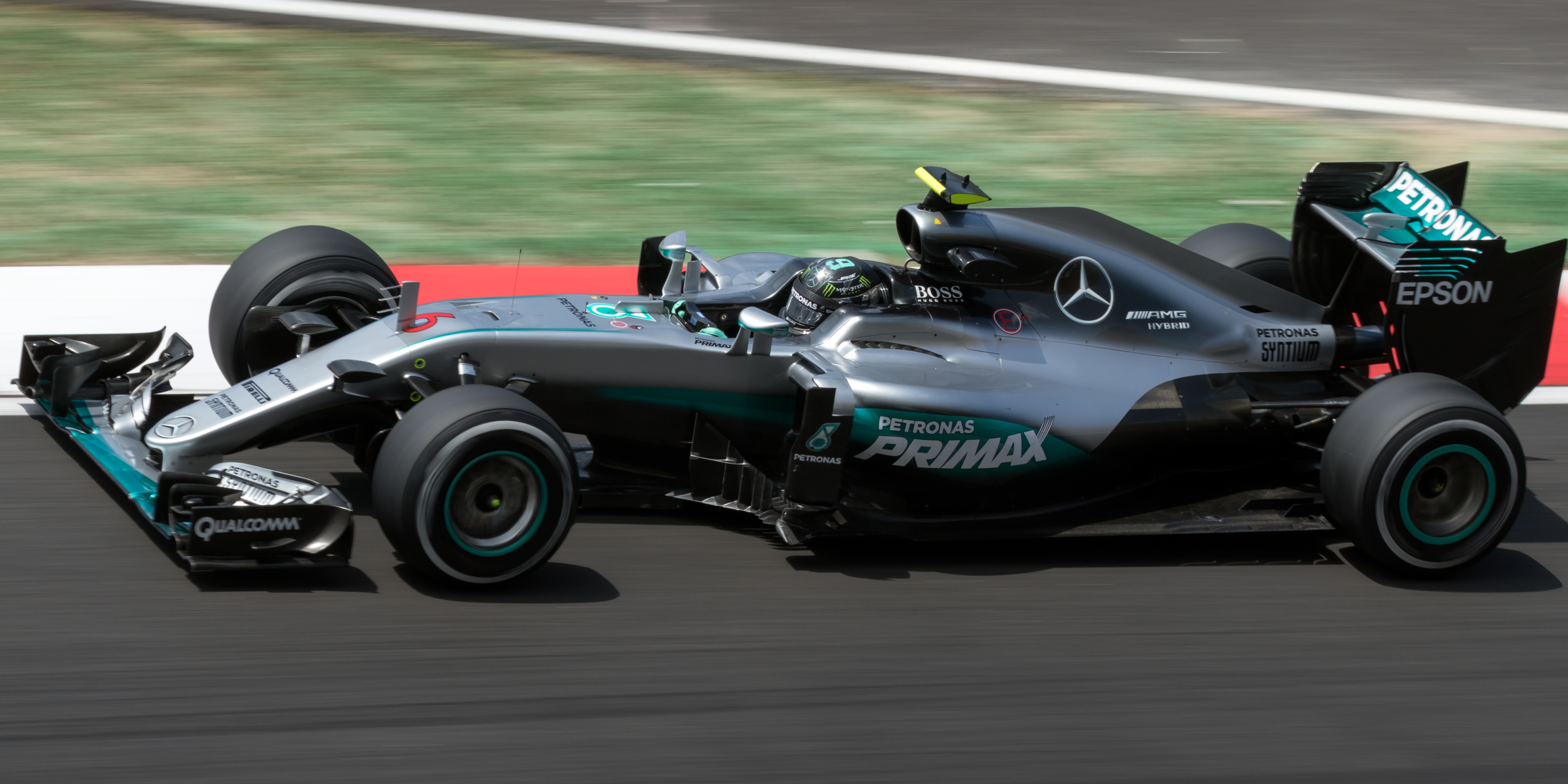 Formula One 2016 Rd.16 Malaysian GP: Nico Rosberg (Mercedes)